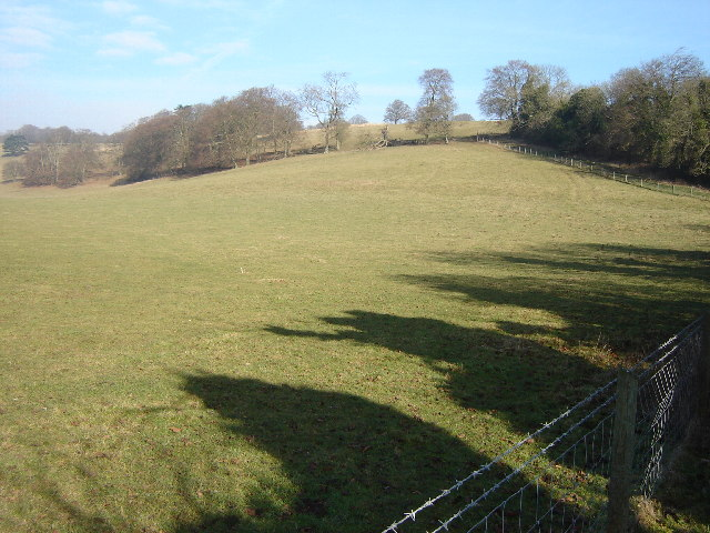 Holybourne Down. There is an old Roman road passing through the centre of the picture, there is a slight dip in the ground about a third of the way down which seems to line up with the road on the map. The road went from Silchester to Chichester. Holybourne is believed to be the site of a Roman posting station called Vindomi.